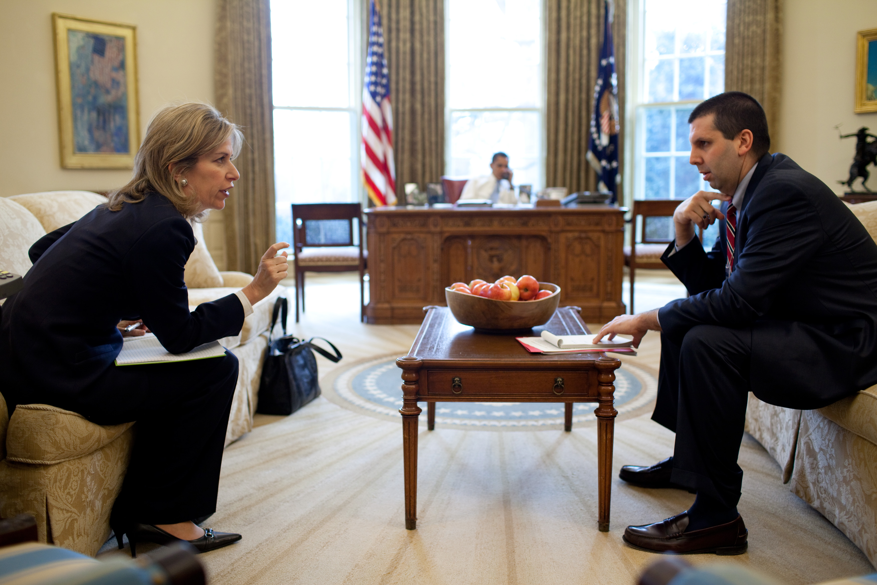 Dr. Elizabeth "Liz" Sherwood-Randall, NSC Senior Director for European Affairs and NSC Chief of Staff Mark Lippert confer in the Oval Office while President Barack Obama talks on the phone with a foreign leader, Feb. 16, 2009. (Official White House Photo by Pete Souza)